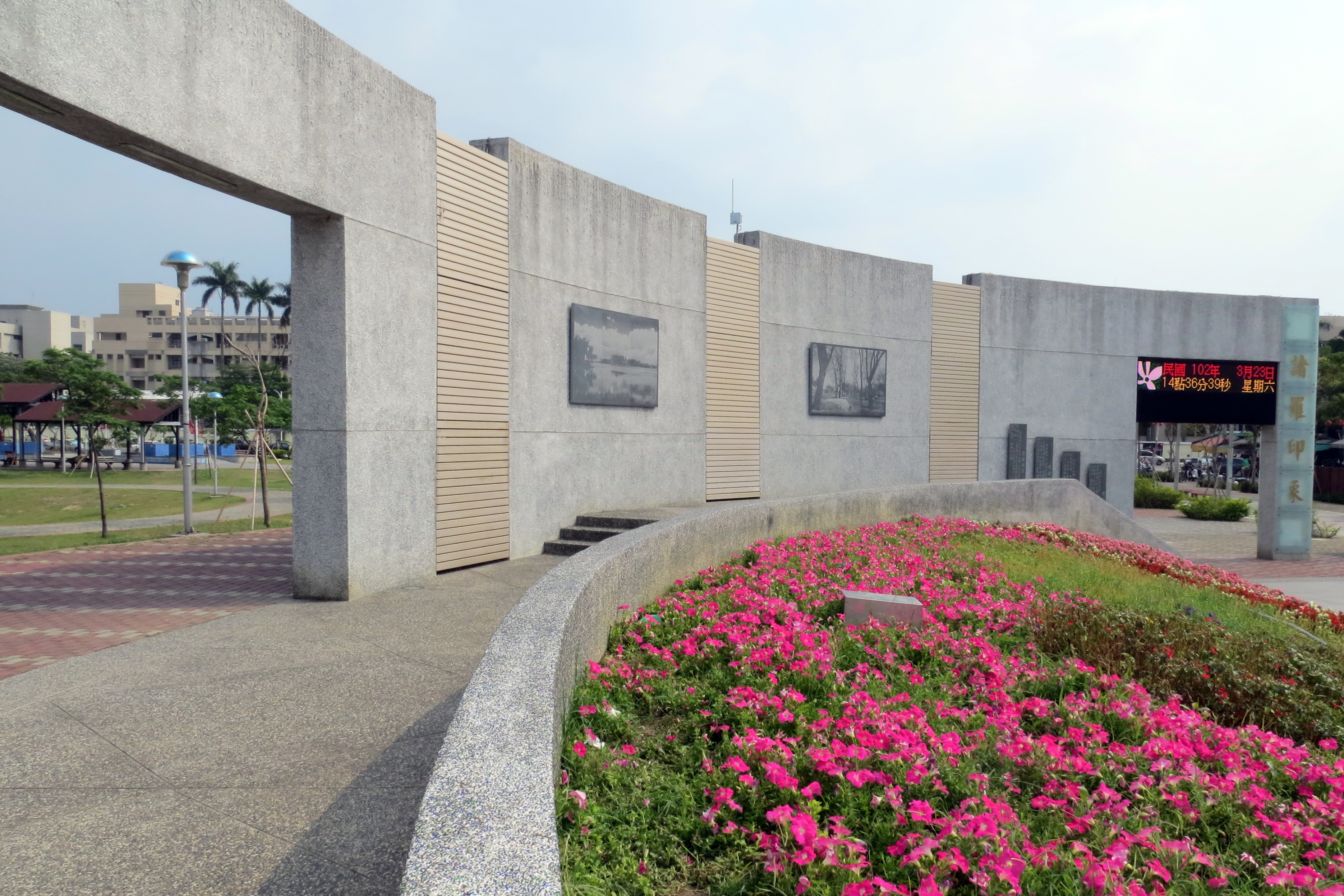 Chiayi Wen Hua Park, Chiayi, Taiwan.